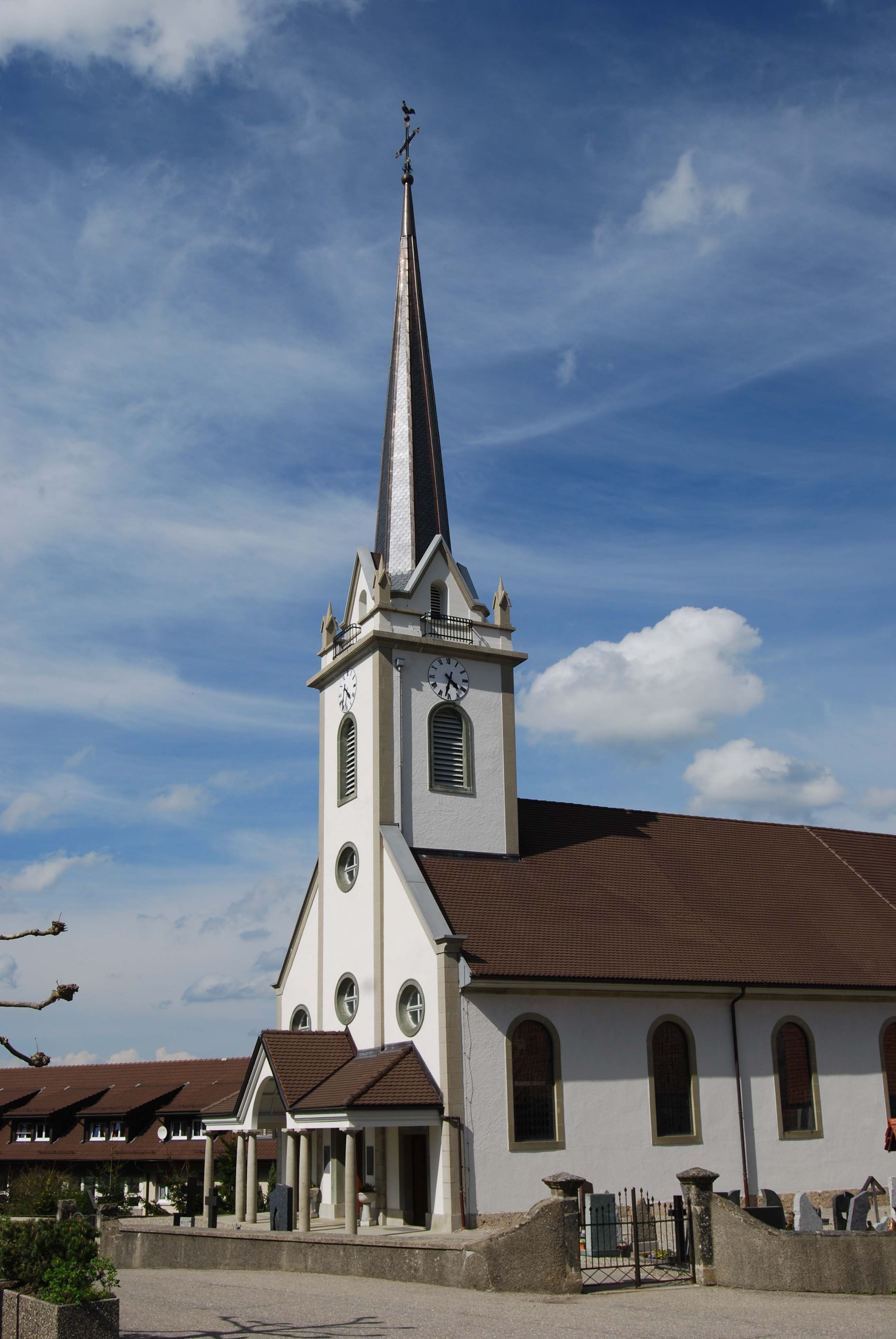 Church Saint-Jean Baptiste at Vuisternens-en-Ogoz, canton of Fribourg, Switzerland